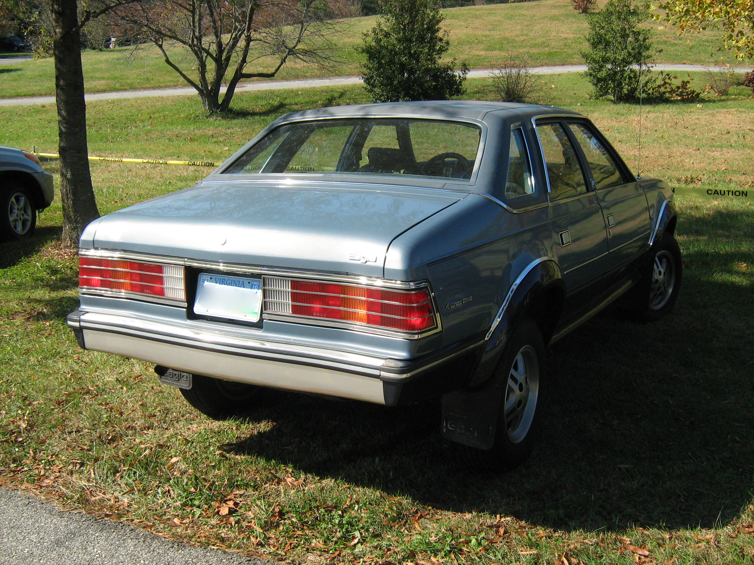 American Motors Corporation (AMC) Eagle (automatic all-wheel drive) four-door sedan finished in light metallic blue. Standard factory equipment and unmodified condition.